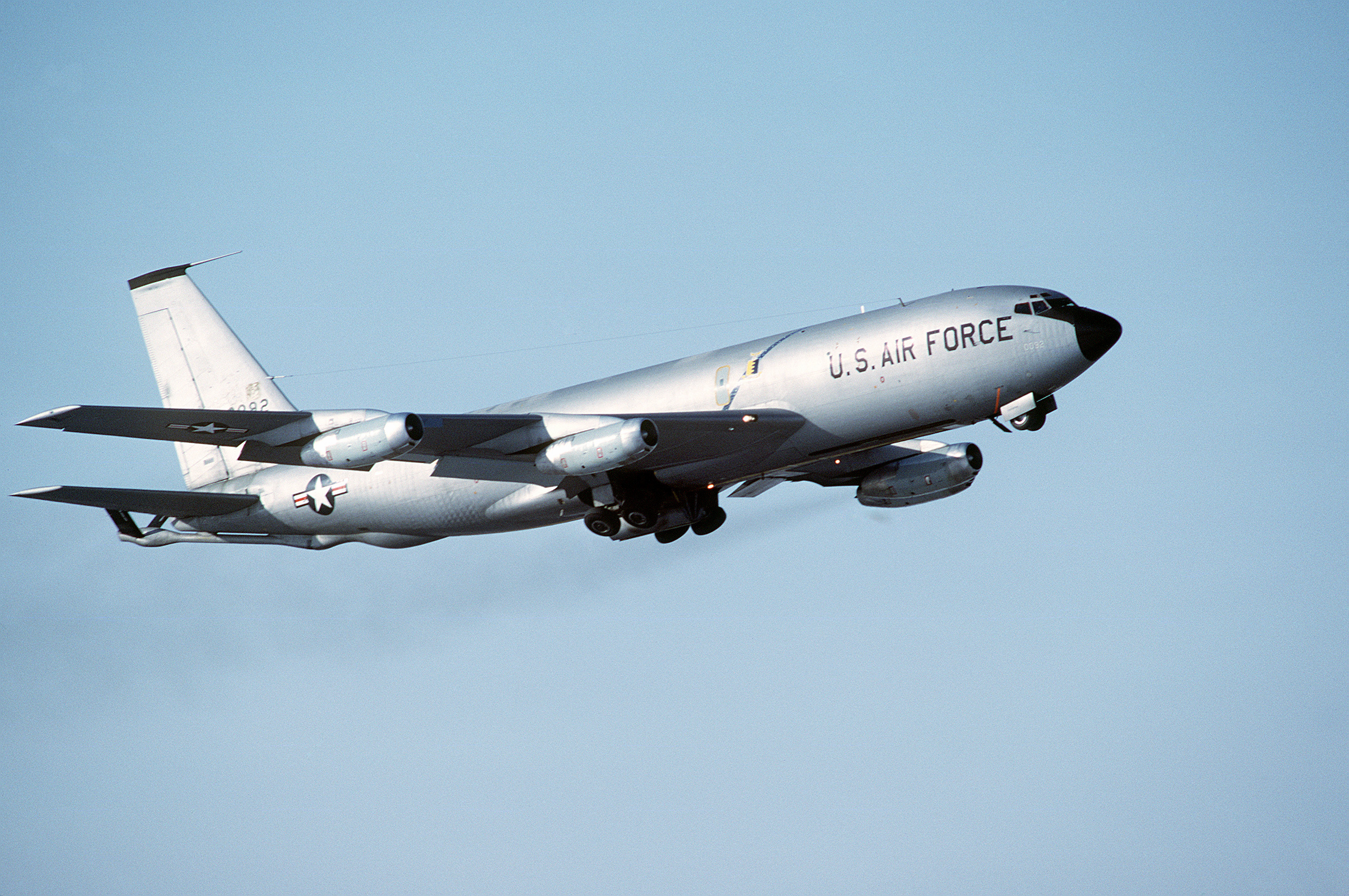 A U.S. Air Force Boeing KC-135A Stratotanker (s/n 58-0029) from the 28th Air Refueling Squadron, 28th Bomb Wing, taking off from its home base, Ellsworth Air Force Base, South Dakota (USA), during exercise "Global Shield '84", on 1 April 1984.